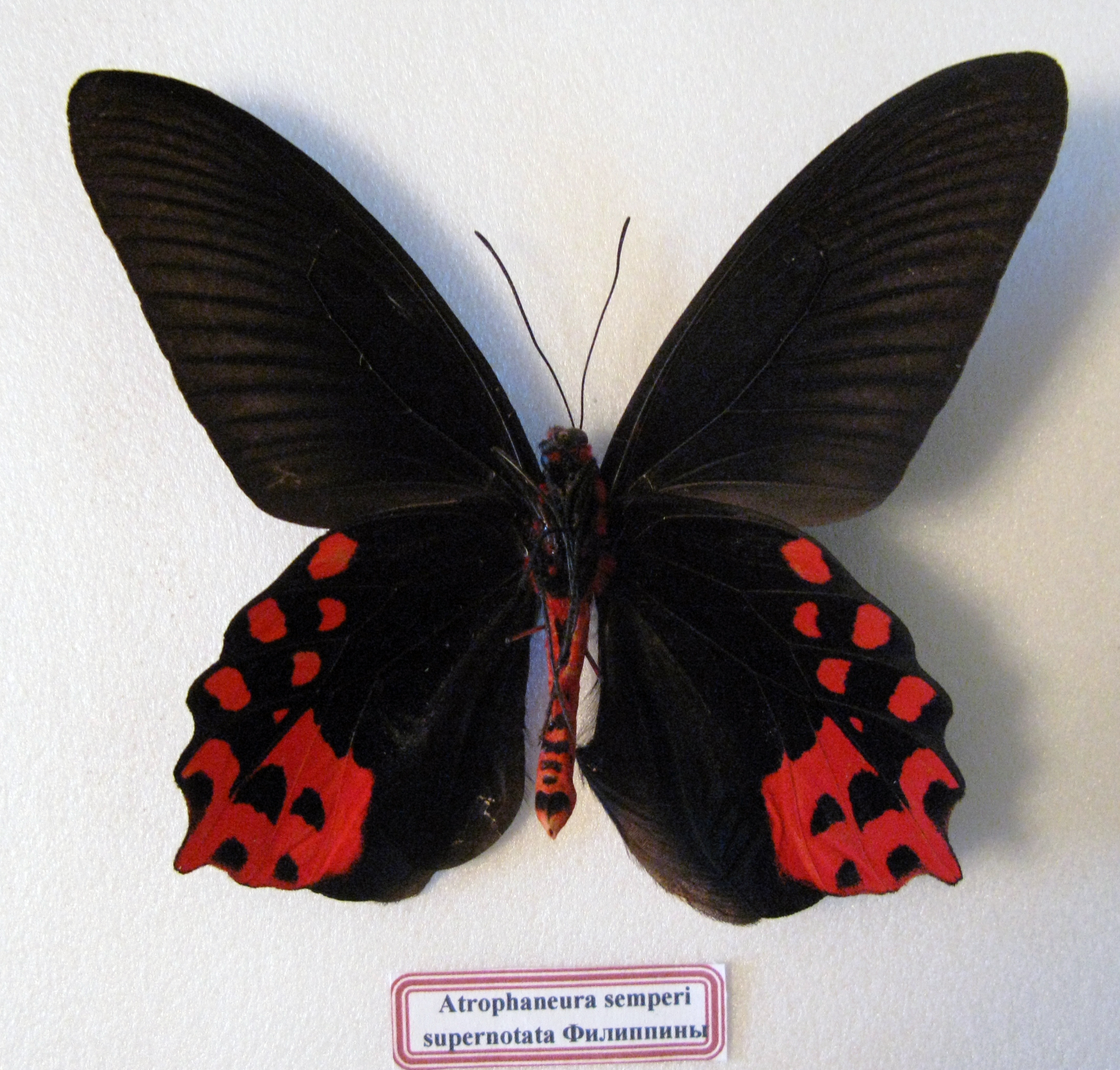 Atrophaneura semperi (male, verso)